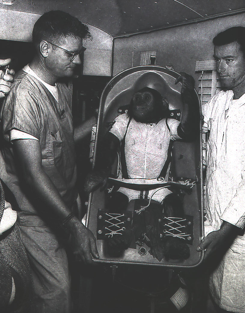 A three-year-old chimpanzee, named Ham, in the biopack couch for the MR-2 suborbital test flight. On January 31, 1961, a Mercury-Redstone launch from Cape Canaveral carried the chimpanzee "Ham" over 640 kilometers (400 mi) down range in an arching trajectory that reached a peak of 254 kilometers (158 mi) above the Earth. The mission was successful and Ham performed his lever-pulling task well in response to the flashing light. NASA used chimpanzees and other primates to test the Mercury capsule before launching the first American astronaut Alan Shepard in May 1961. The successful flight and recovery confirmed the soundness of the Mercury-Redstone systems.